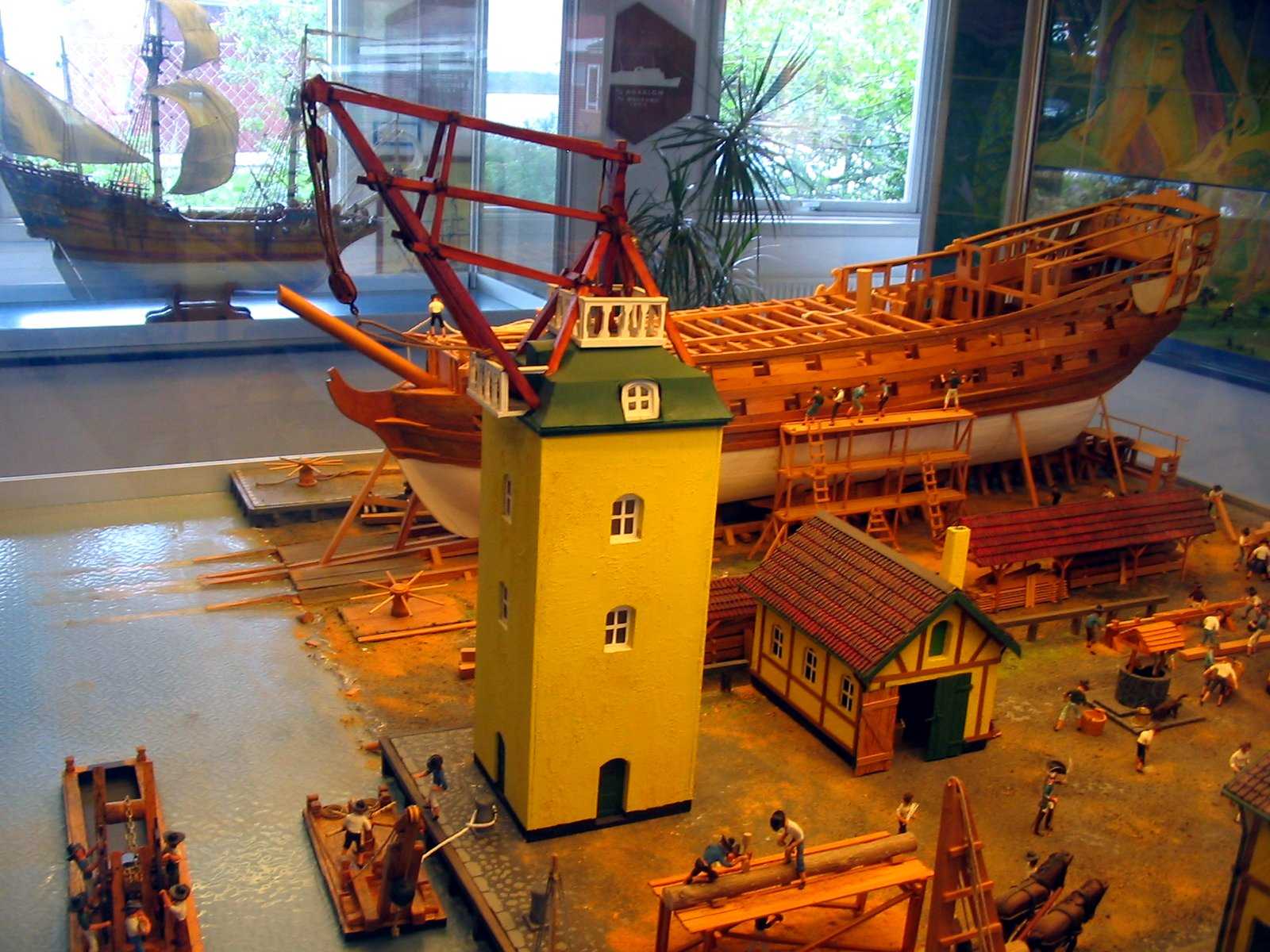 SHIPBUILDING - models of a ship under construction and a port crane. Picture taken in Aalborg Maritime Museum, Denmark